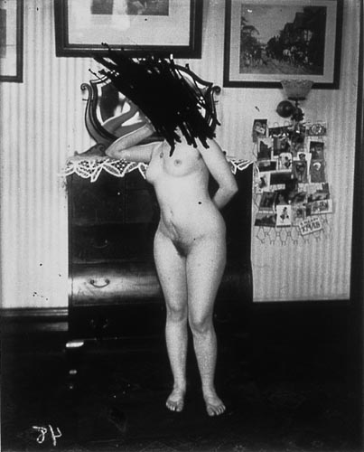 E. J. Bellocq photo, Storyville, 1912